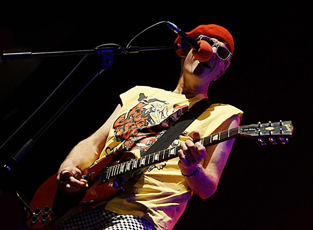 The Damned performing at the Ritz, Manchester, as part of the North West Calling Punk Festival on Saturday 16th May 2015